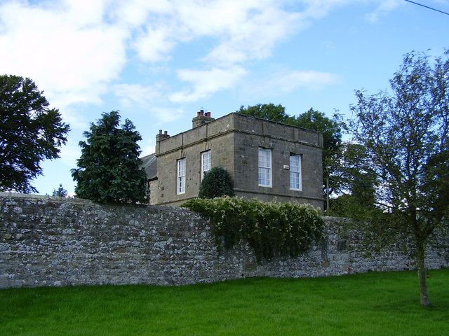 Bastle or Pele Tower Kirkheaton